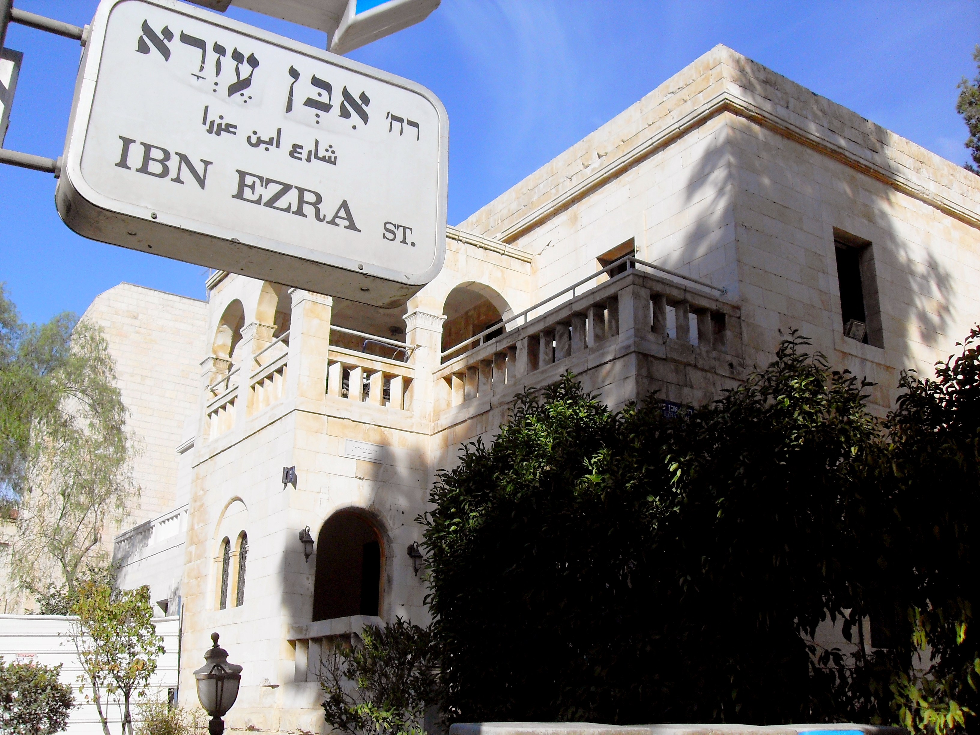 Jerusalem Ramban street 26 Frumkin house (1924)